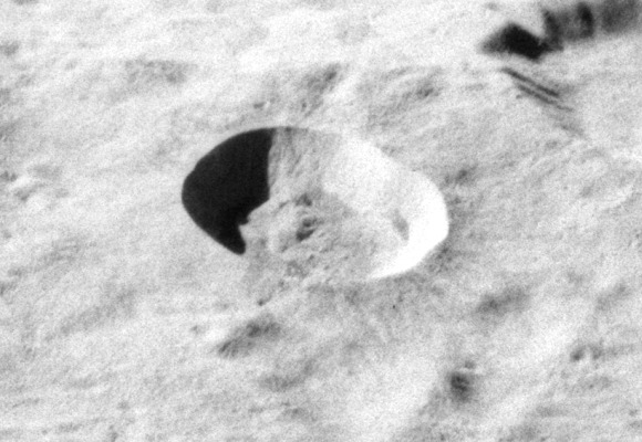 Oblique view of Giordano Bruno, on the far side of the moon. North is in upper right.